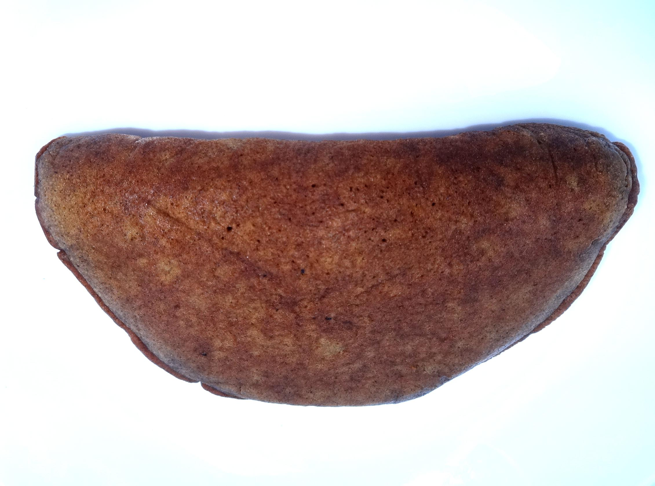 Funeyaki or boat-shaped pancake in Kasari Town, Amami Oshima, Kagoshima